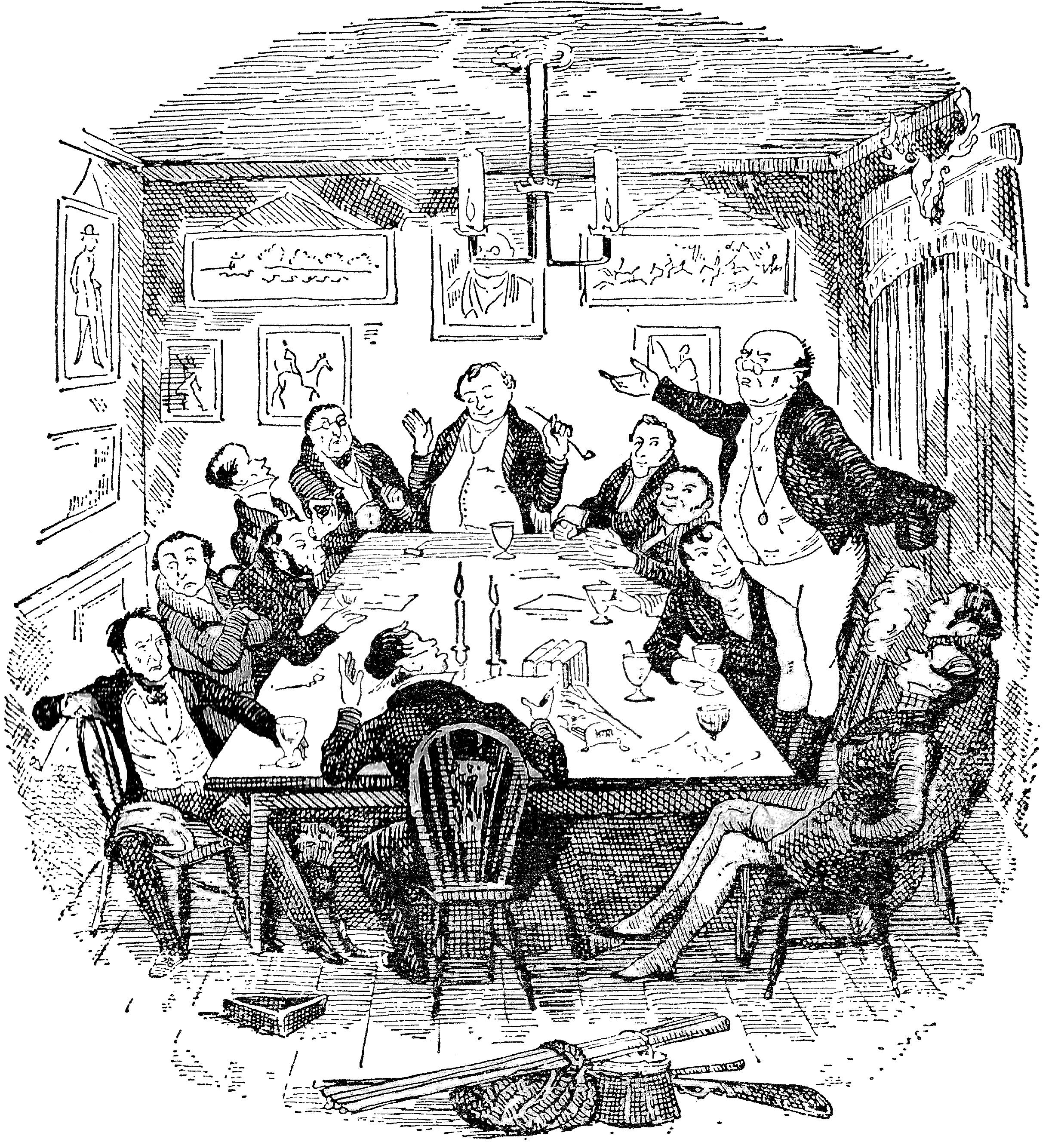 The Posthumous Papers of the Pickwick Club. First chapter.